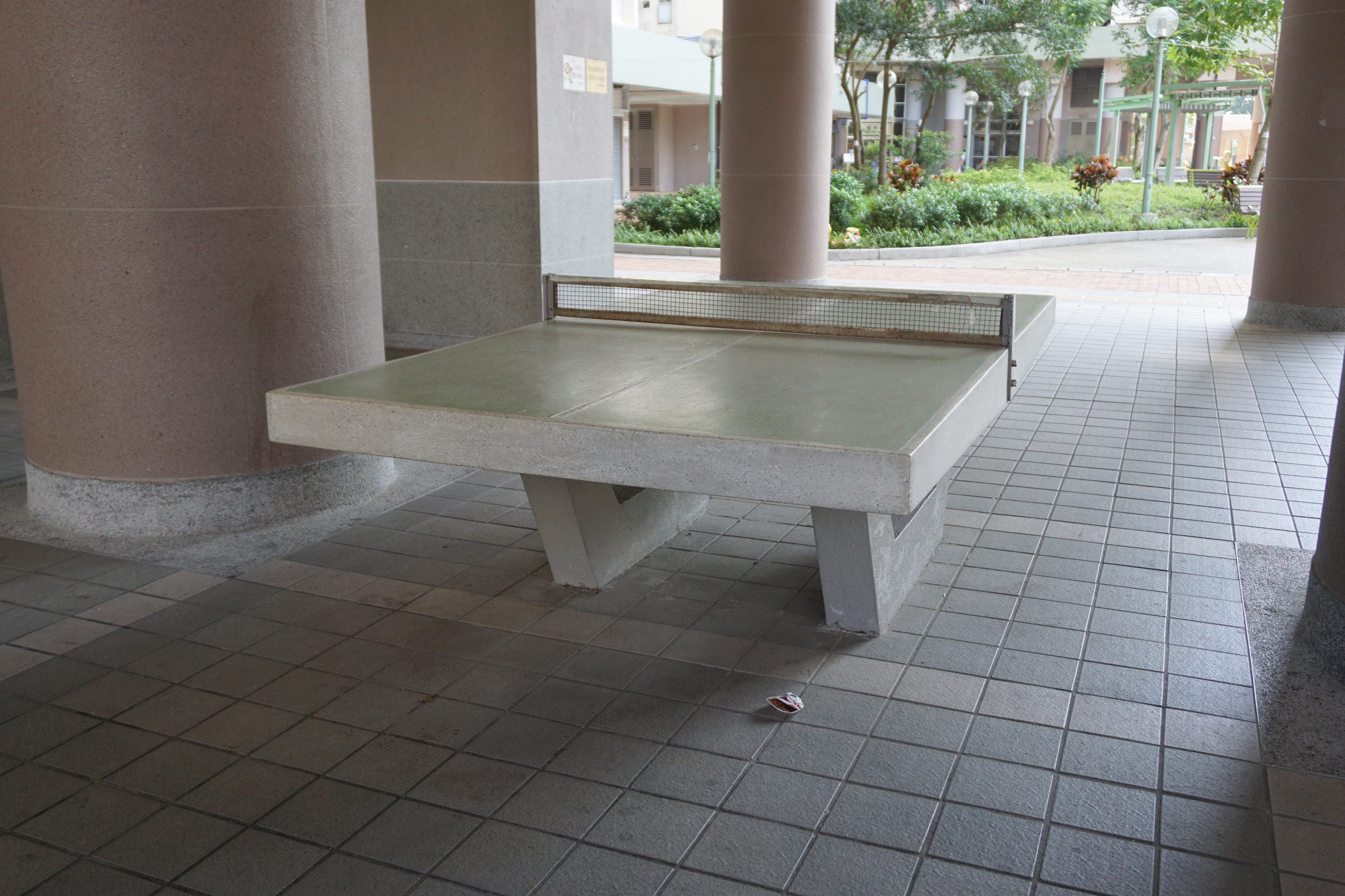 Yan On Estate in Heng On, Hong Kong.